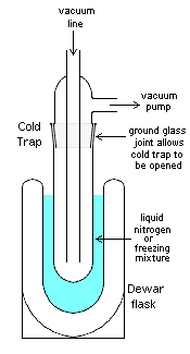 Cross-sectional diagram of Cold Trap immersed in cooling medium in Dewar flask H Padleckas created this image on November 1-2, 2006 especially for use in the article "Cold trap" in Wikimedia. H Padleckas 17:59, 3 November 2006 (UTC)